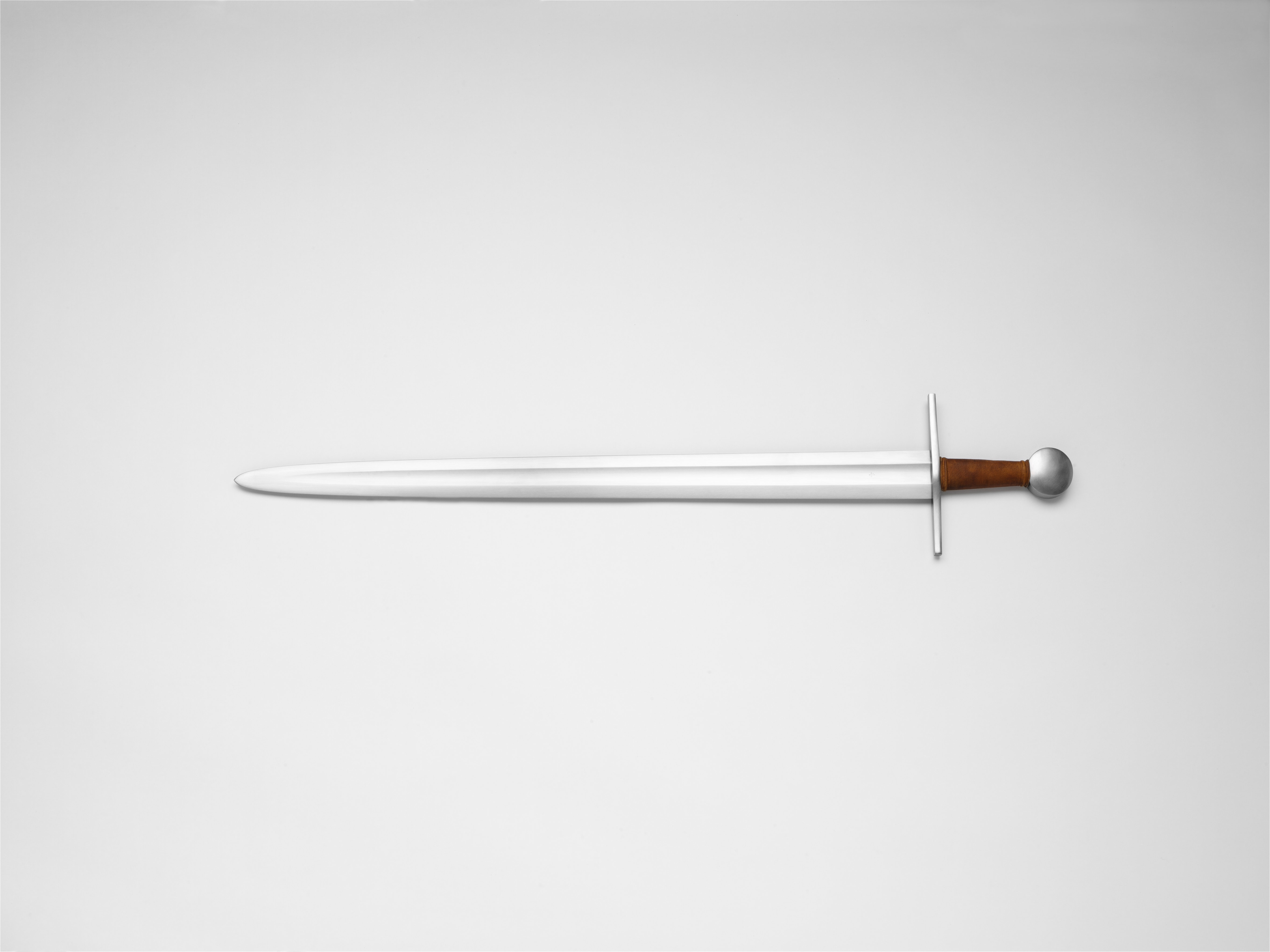 The Bayeux Limited Edition Medieval Sword